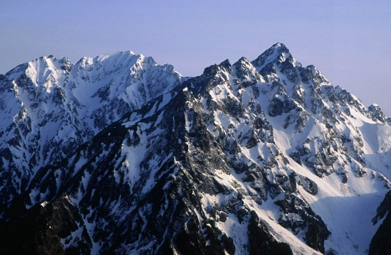 Mount Hotaka from_Tokugotoge